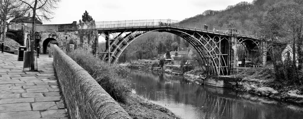 The Iron Brige Gorge